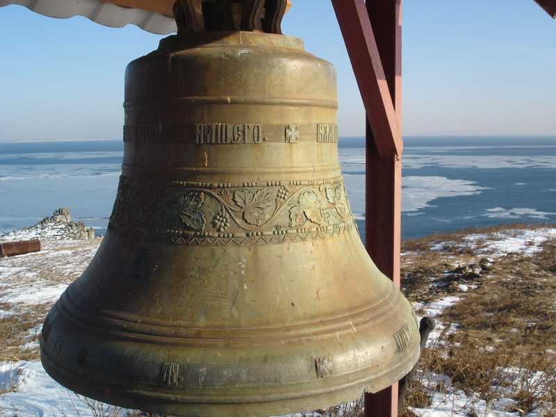 Bell of lighthouse Byusse in Khasansky District, Primorsky Krai, Russian Far East